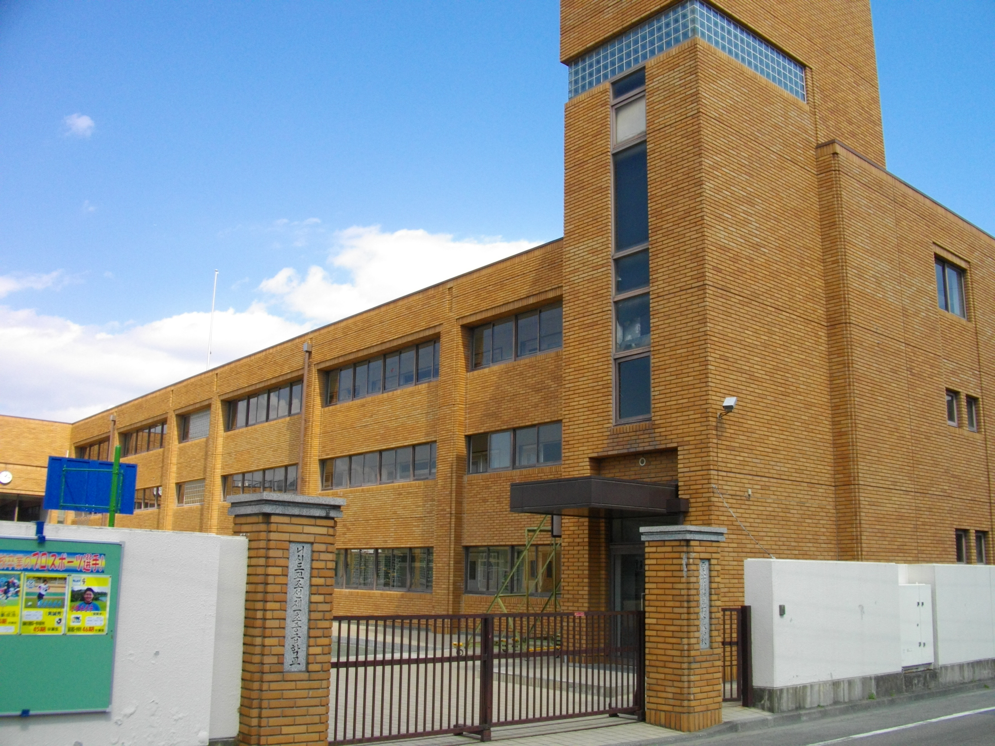 Nishi-Tokyo Korean 1st Elementary and Junior High School